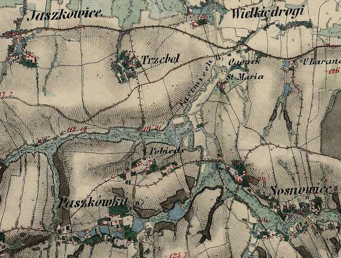 Trzebol und Pobiedr, historically importan villages, now only hamlets